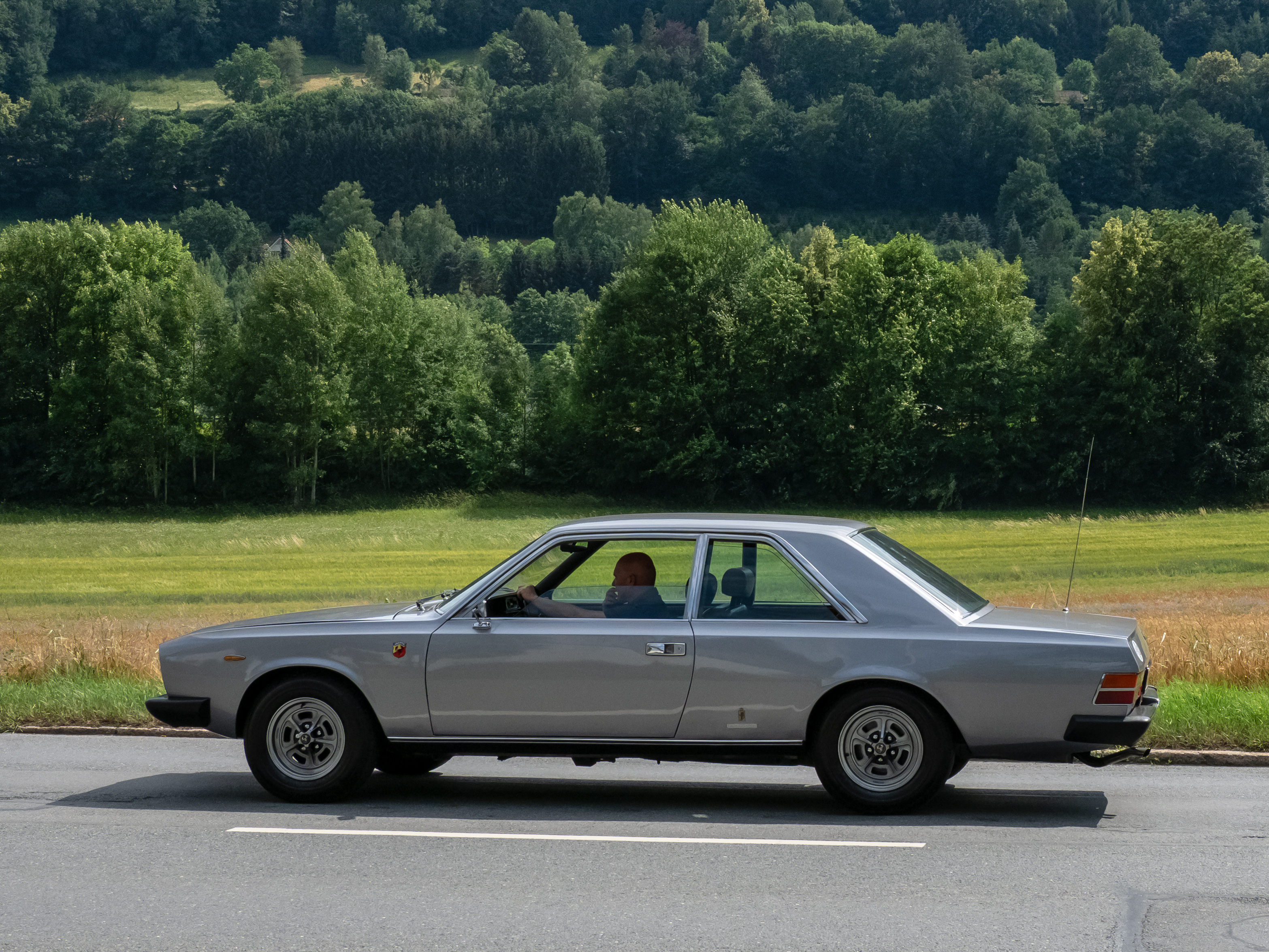 Fiat 130 Coupe at the Kulmbach 2018 Oldtimer Meeting